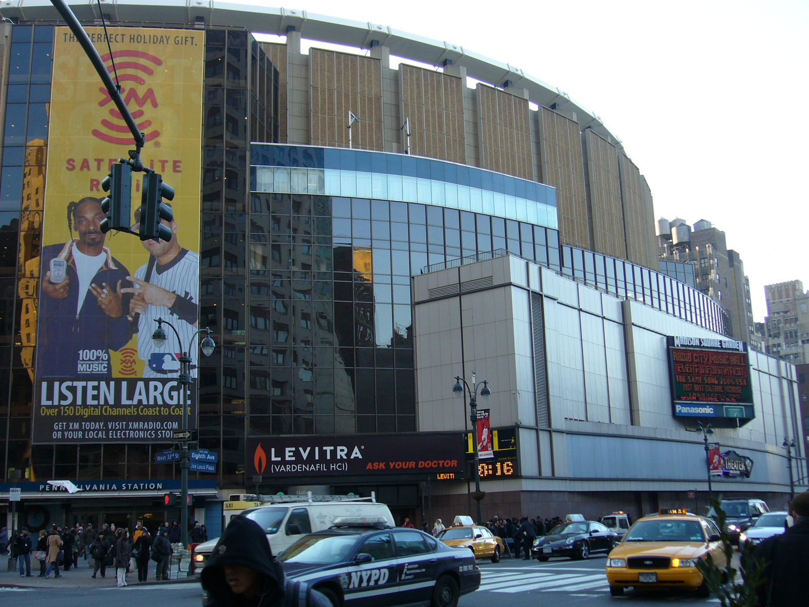 Madison Square Garden in 2005.